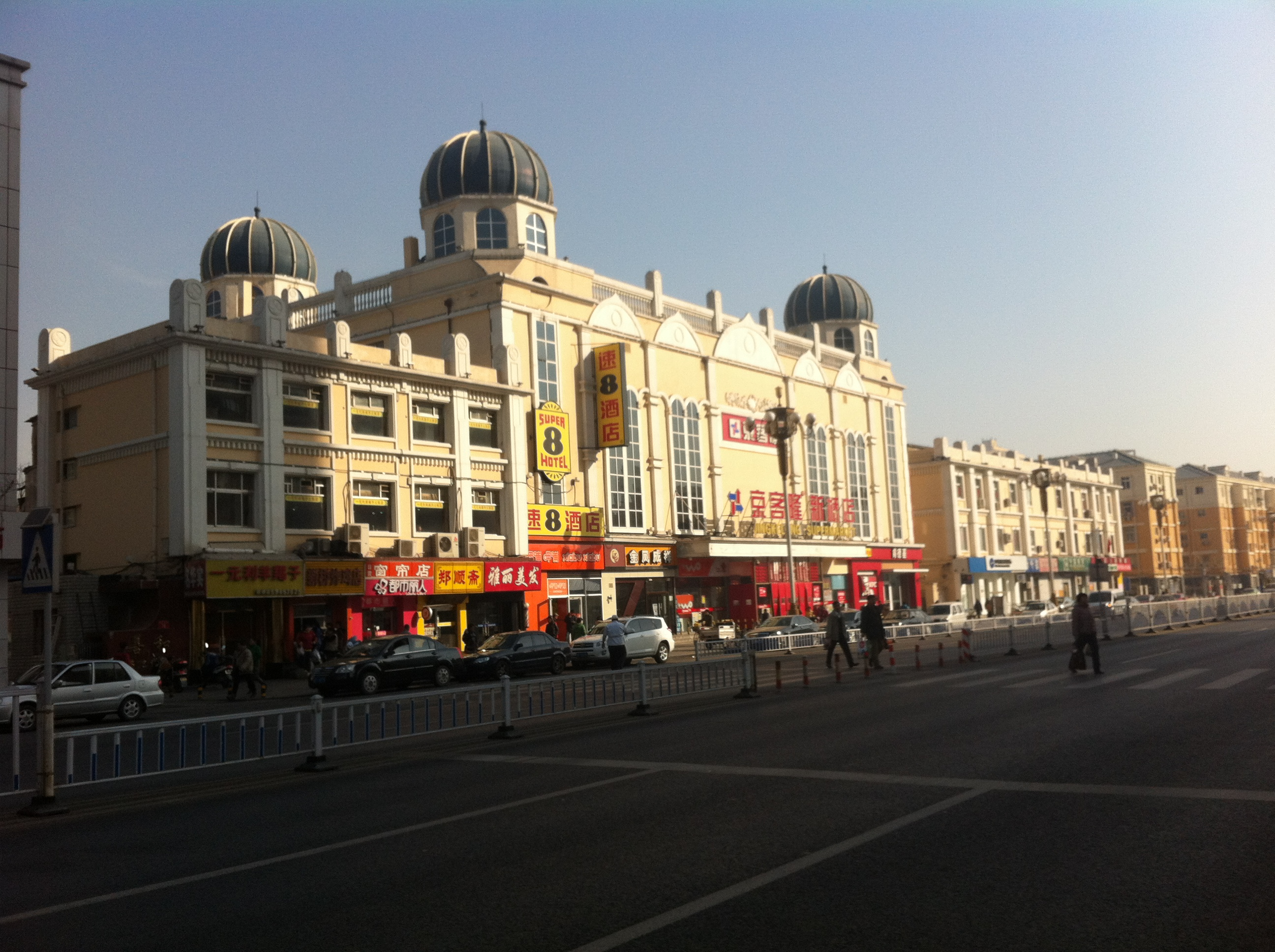 Jingkelong, Super 8 Hotel, KFC and the famous Xinqiao Fried Chicken.